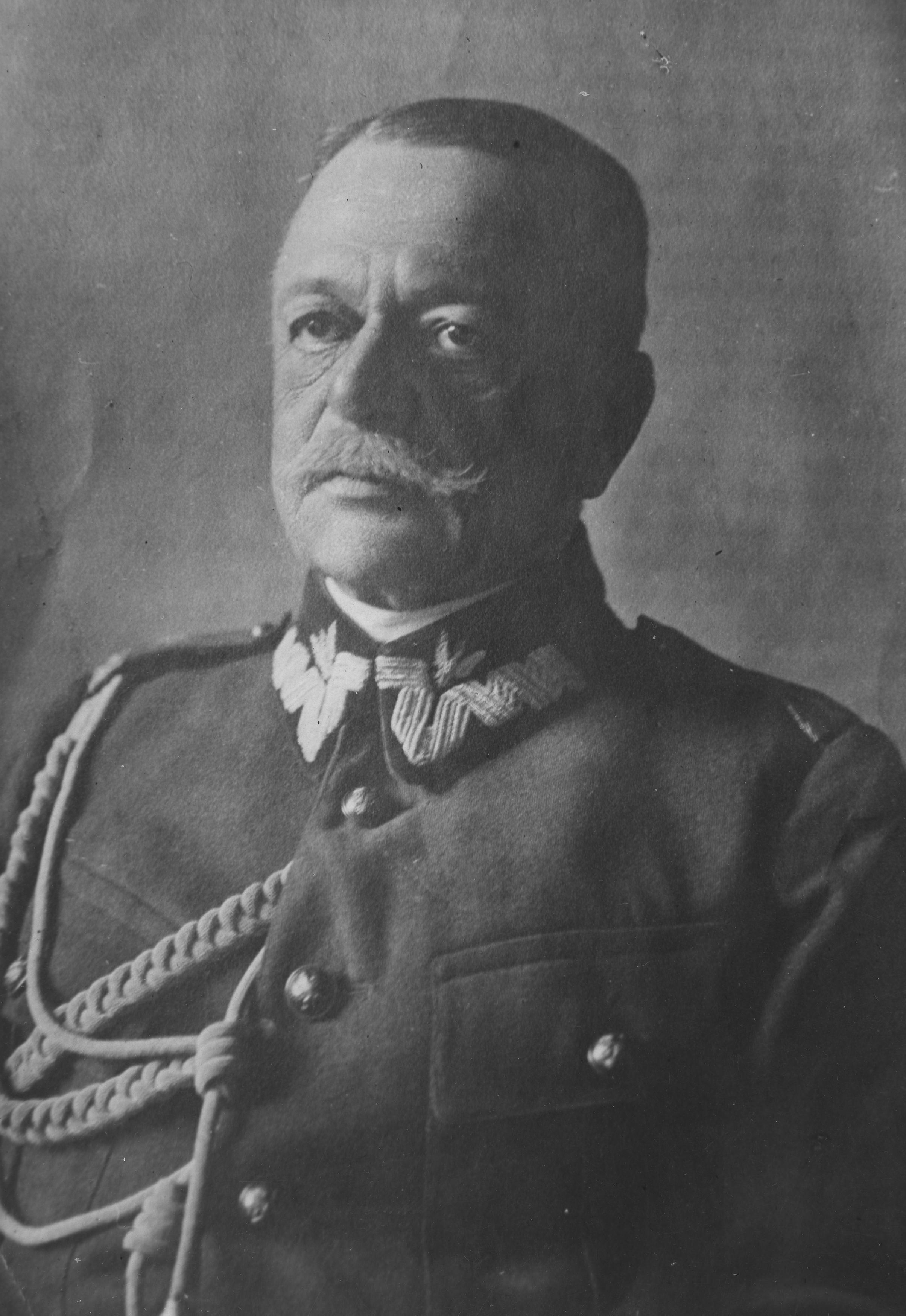 Władyslaw Frankowski (1859–1922), Polish and Russian army general, photograph.